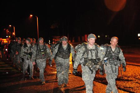 Soldiers with 4-2 Stryker Brigade Combat Team, 7th Infantry Division complete a 25-mile ruck march known as the “Manchu Mile” March 6 on Joint Base Lewis-McChord, Wash. (U.S. Army photo by Sgt. Kimberly Hackbarth, 4-2 SBCT, 7th ID Public Affairs Office)